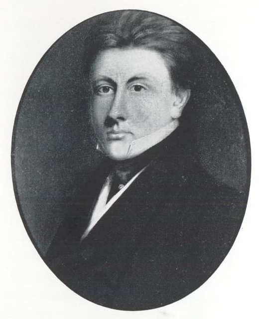 Portrait of 19th-century British trader Robert Hunter, scan of a printed copy of the original oil painting owned by the Hunter family